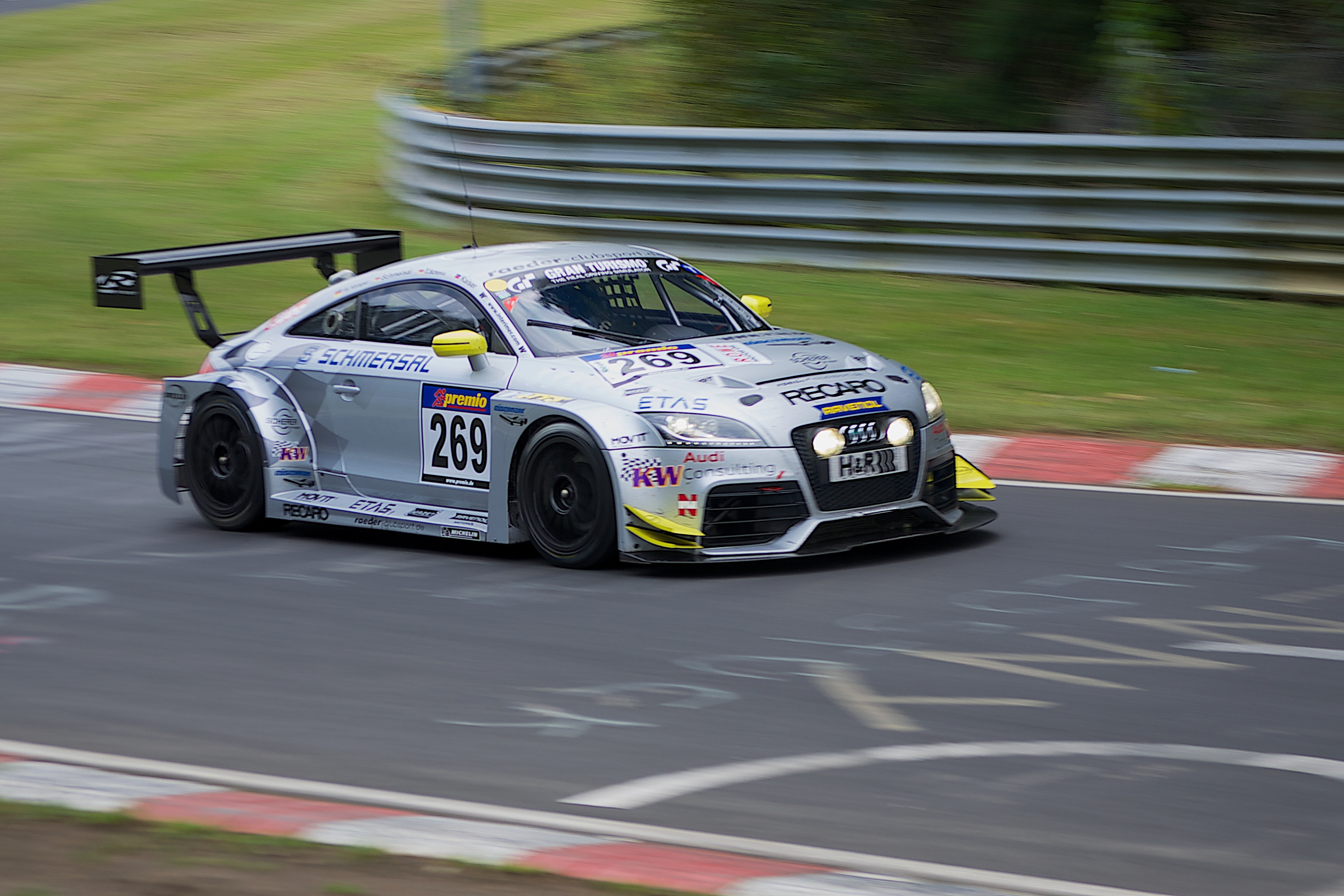 Photo taken during the ROWE 250 Miles Endurance Race on the Nürburgring Nordschleife